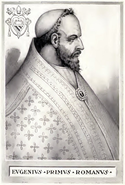 This illustration is from The Lives and Times of the Popes by Chevalier Artaud de Montor, New York: The Catholic Publication Society of America, 1911. It was originally published in 1842.